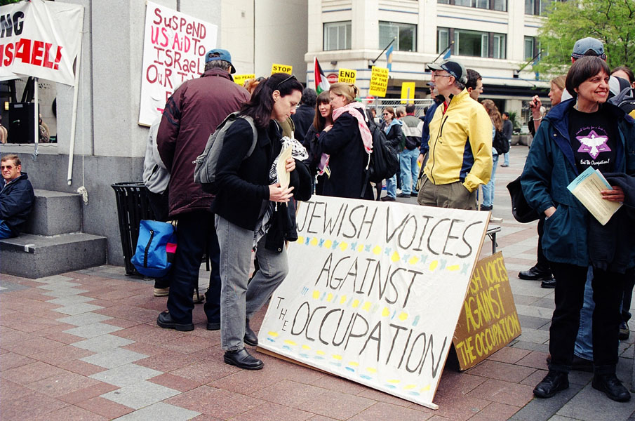 Jews Against the Occupation, Westlake Park, Seattle, 2002